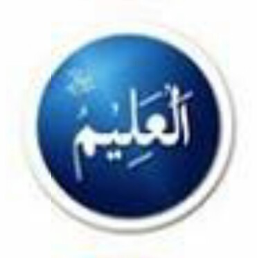 Al-'Aleem / The Omniscient is a name of Allah, is a name of God in Islam.